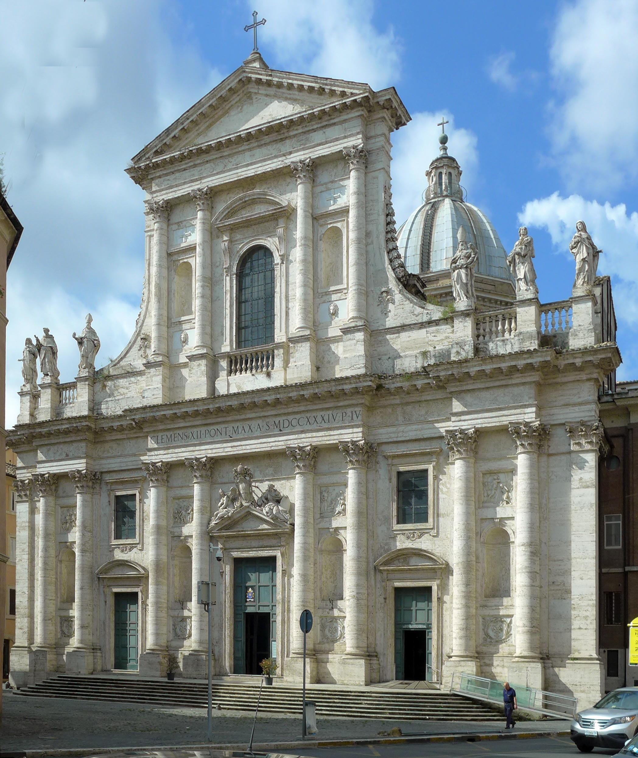 Church San Giovanni dei Fiorentini (Rome)